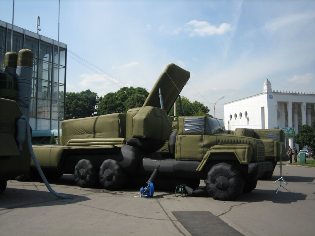 Inflatalbe S-300PMU2 SAM of Russia.